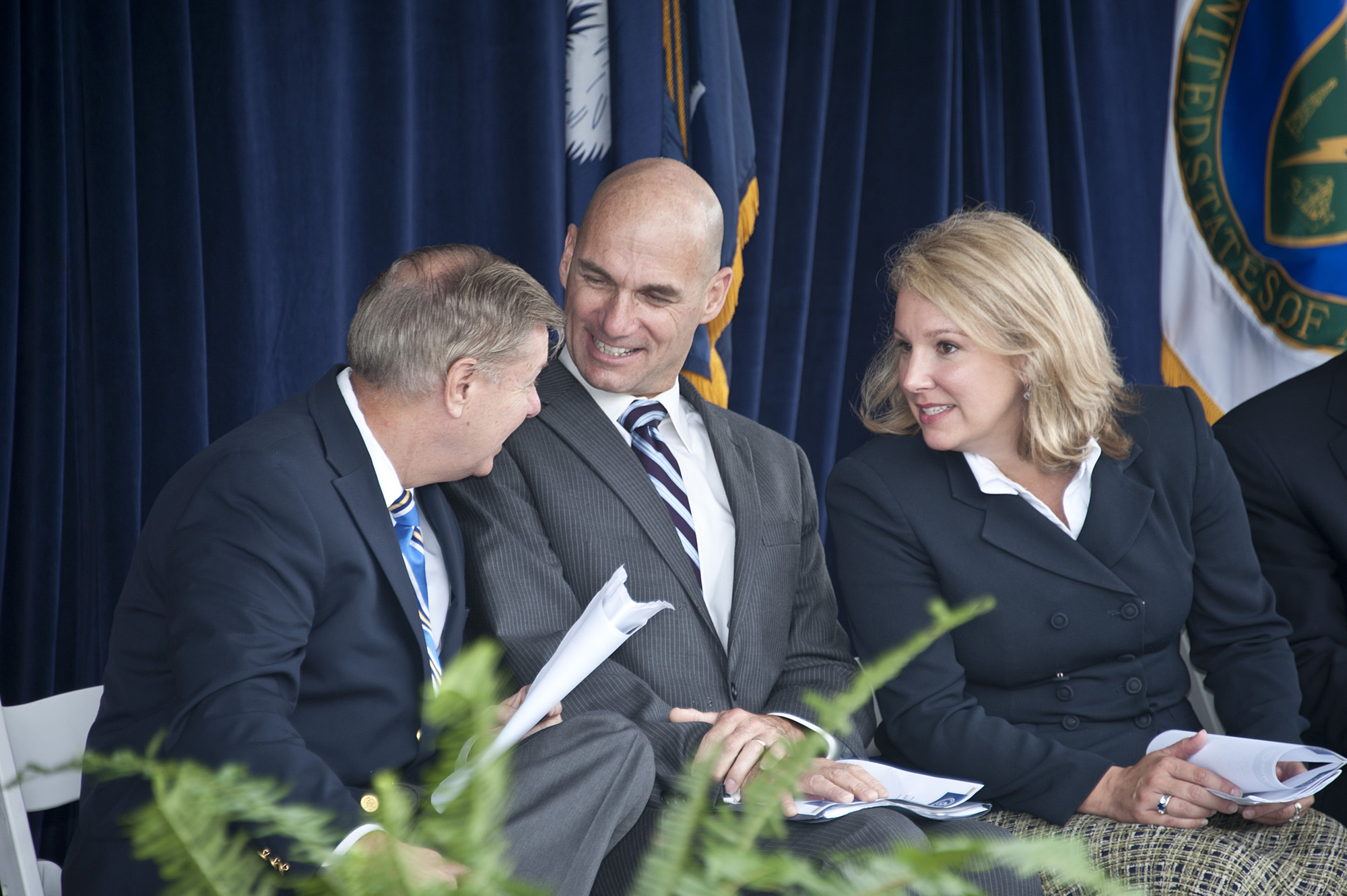 Thomas P. D’Agostino, Undersecretary for Nuclear Security & Administrator, NNSA, South Carolina Department of Health & Environmental Control, Director Catherine Templeton Senator Lindsey Graham